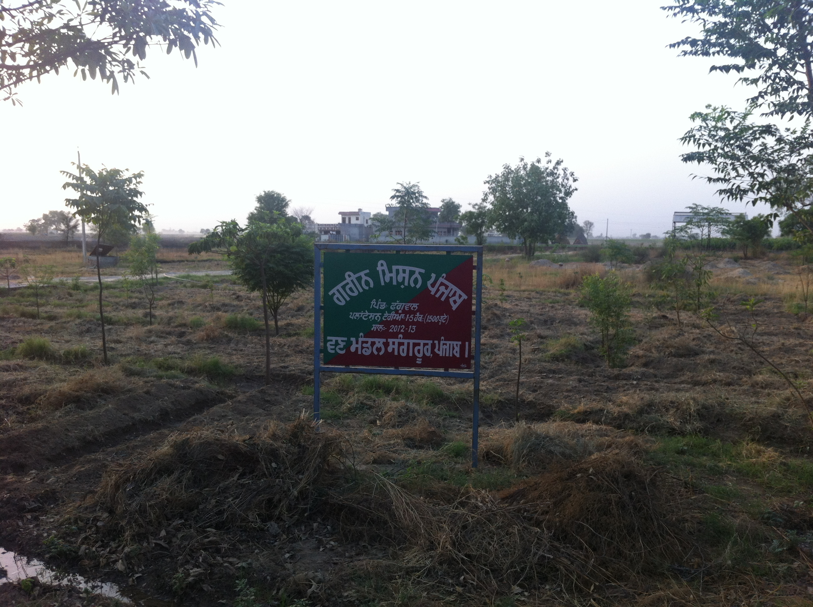 Mission Project Green;Other information: No copyright required as it is clicked by myself